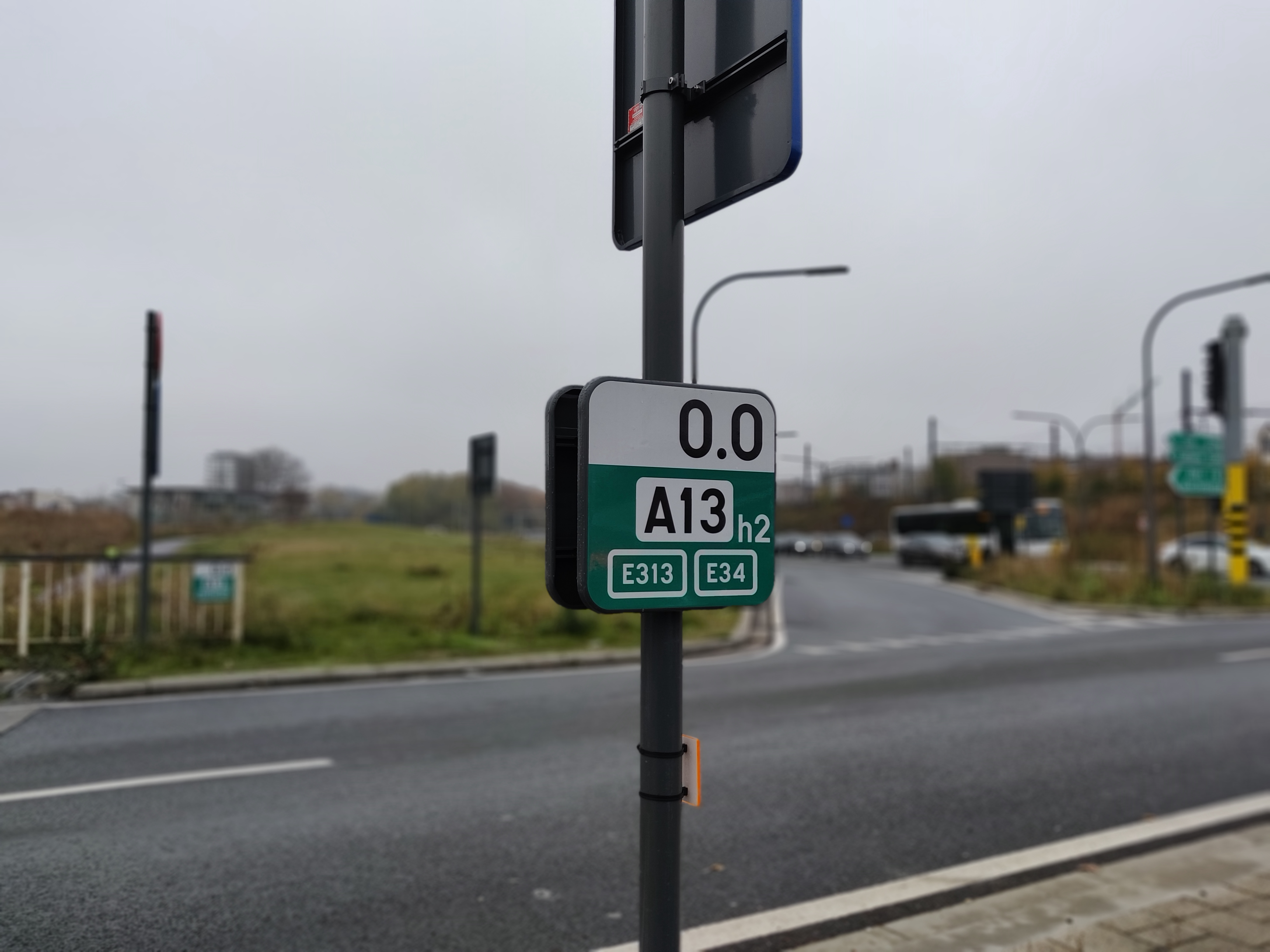 This is a road kilometer sign of Flanders, Belgium, 2018